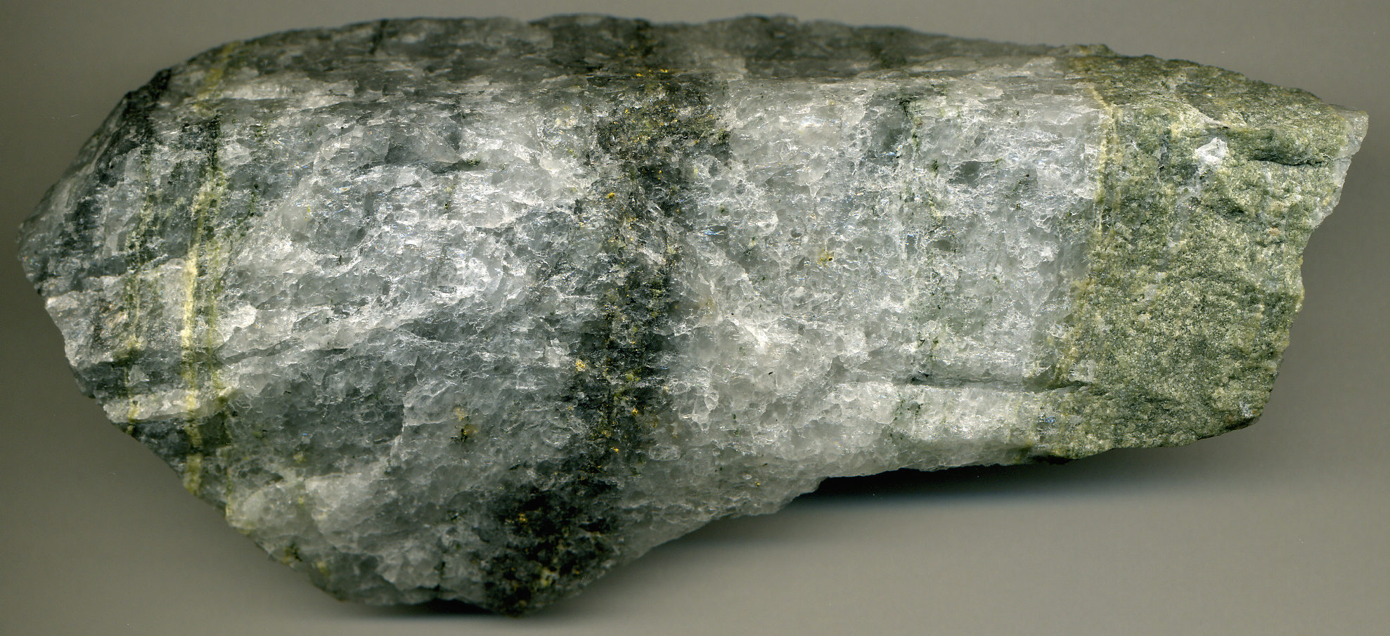 Nalunaq Gold Ore (14.3 cm across at its widest) - sample of the “Main Vein” from Level 230E of the Nalunaq Gold Mine, southern Greenland. Whitish-grayish-blackish material = quartz. Small metallic yellow chunks in central top to bottom of photo = gold. Greenish-gray area at right = epidote-diopside-feldspar calc-silicate alteration zone rock (host rock for the quartz-gold vein). The Nalunaq Gold Mine is Greenland’s first gold mine. It's located 33 km northeast of Nanortalik, in the Ketilidian Orogenic Belt of southern Greenland (60º 21’ 29” N, 44º 50’ 11” W). The deposit was discovered in 1992 and mining commenced in 2004. Mining targets the “Main Vein”, a quartz-gold hydrothermal vein emplaced in a 1 to 2 meter wide shear zone (a regional thrust fault). Shear zone hydrothermal quartz-gold occurrences are frequently referred to as “Mother Lode-type gold deposits”, in reference to the Mother Lode of California. Hanging wall rocks at the Nalunaq Mine are Paleoproterozoic amphibolite-facies metadolerites and metavolcanics. Footwall rocks are volcanogenic massive sulfides. Quartz-gold mineralization here has been dated to 1.77 to 1.80 billion years ago (late Paleoproterozoic), during the Ketilidian Orogeny.